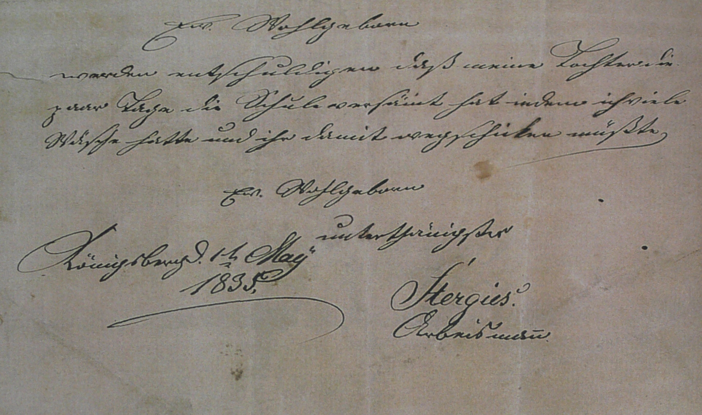 School excuse letter written by a parent, Königsberg 1835: Sir may exuse that my daughter missed school for that couple of days that I had a lot of laundry and had to send her away with it. Most humbly at your service, Stergies, workman. Königsberg May 1st 1835. (“Wohlgeborn” being a honorific title claimed by Bourgeois notables, cf. Hochwohlgeboren) Sammlung Kindheit und Jugend (Stiftung Stadtmuseum Berlin)